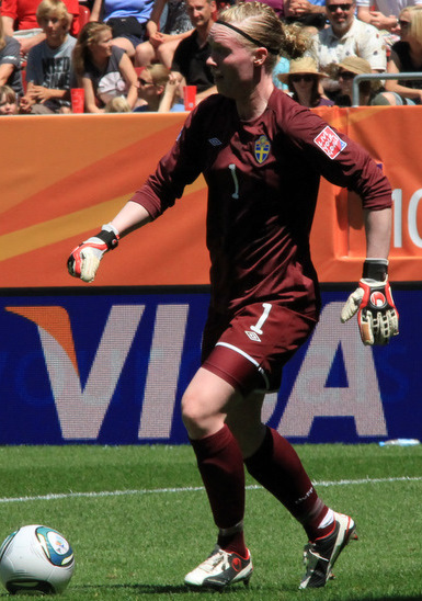 Hedbig Lindahl playing for Sweden in the 2011 FIFA Women's World Cup